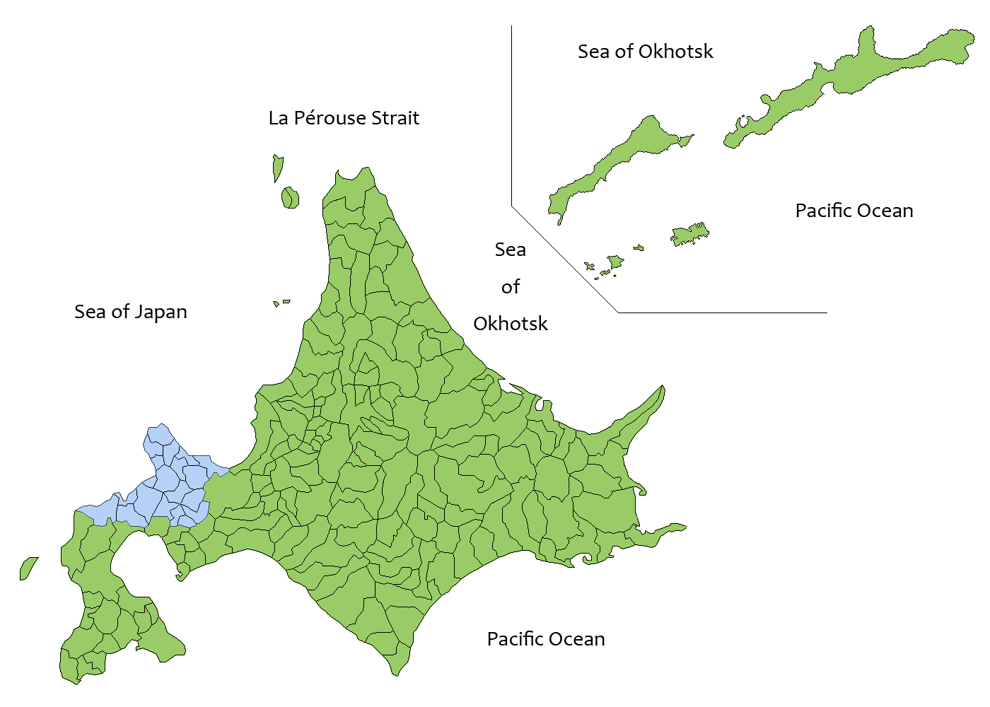 Map of Shiribeshi subprefecture in English